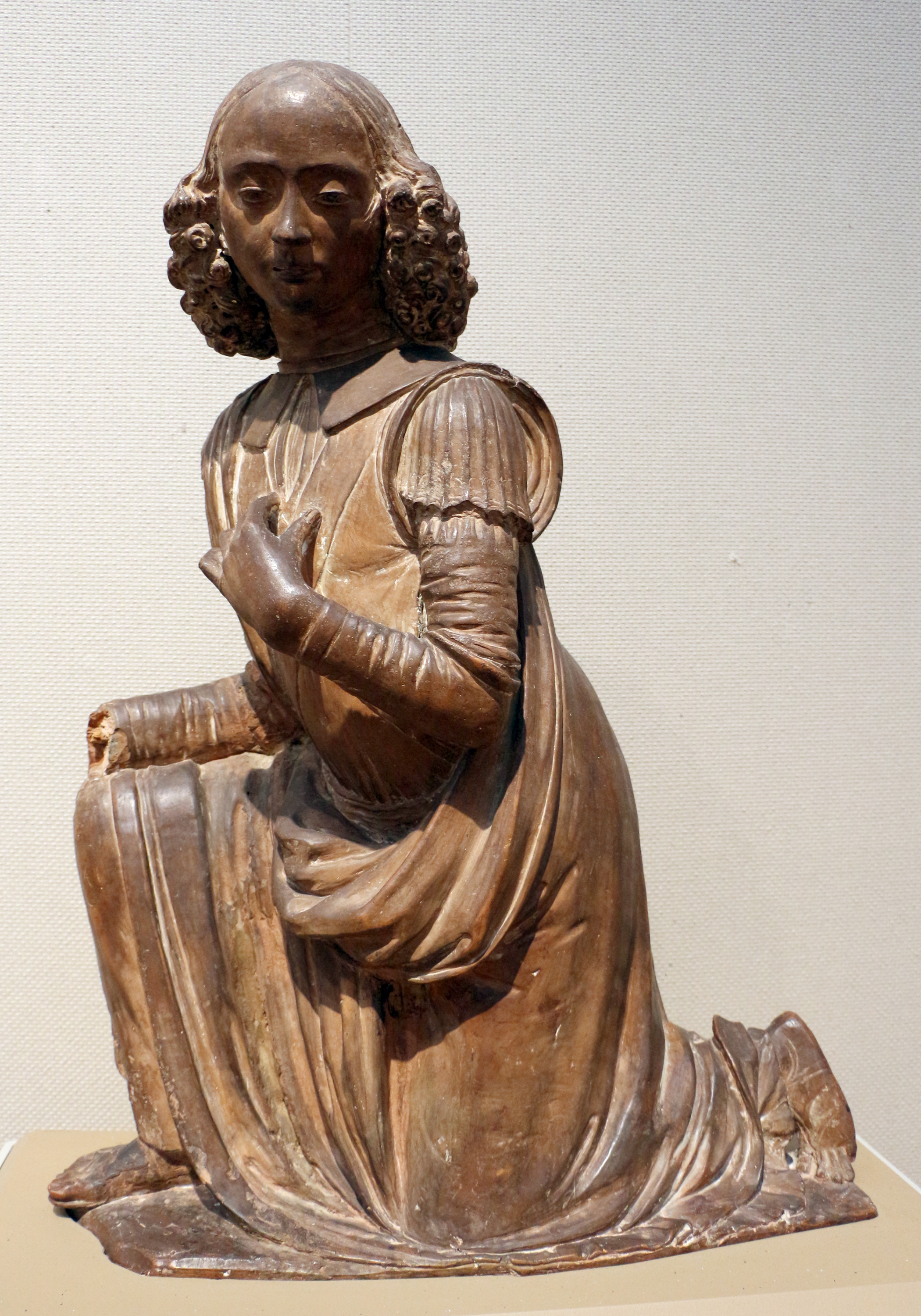 Sculptures in the Toledo Museum of Art